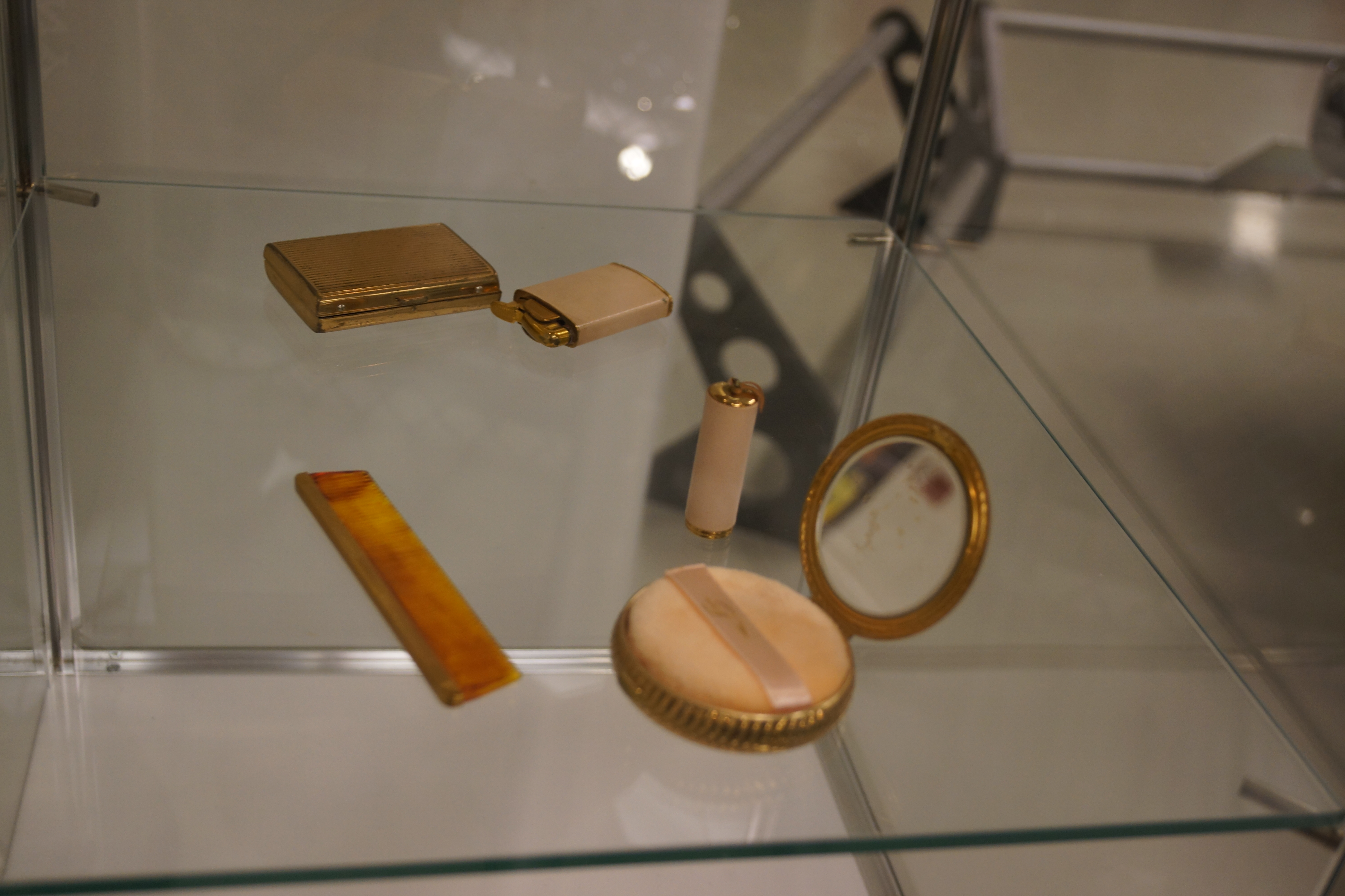 Click here for more car pictures at my Flickr site. Or here for my Car Crazy Tumblr site. Back on November 4th, Hemming's Blog posted an article about the closing of the Walter P. Chrysler Museum . I had missed a couple other opportunities with the WPC Club and others to get into the museum, after it had closed to the public. I did not want to regret missing this last chance to see all of the vehicles before being spread out to other facilities. I trekked from Western Minnesota to Eastern Michigan during Winter Storm Decima. I missed the worst parts of the storm, but still had to endure the aftermath winds, sub zero temperatures and a lake effect snow storm. The trip was difficult, but well worth it. I got to see several Chrysler Corporation concept and show cars that I had only seen pictures of before. There were several clever interactive displays demonstrating various innovations over the years. Since it was the last chance, I duplicated several shots using different camera settings to see what produced better results. I wish I had invested in a strobe light diffuser for all of those indoor pictures. I have not had much experience or success in the past with indoor car images.